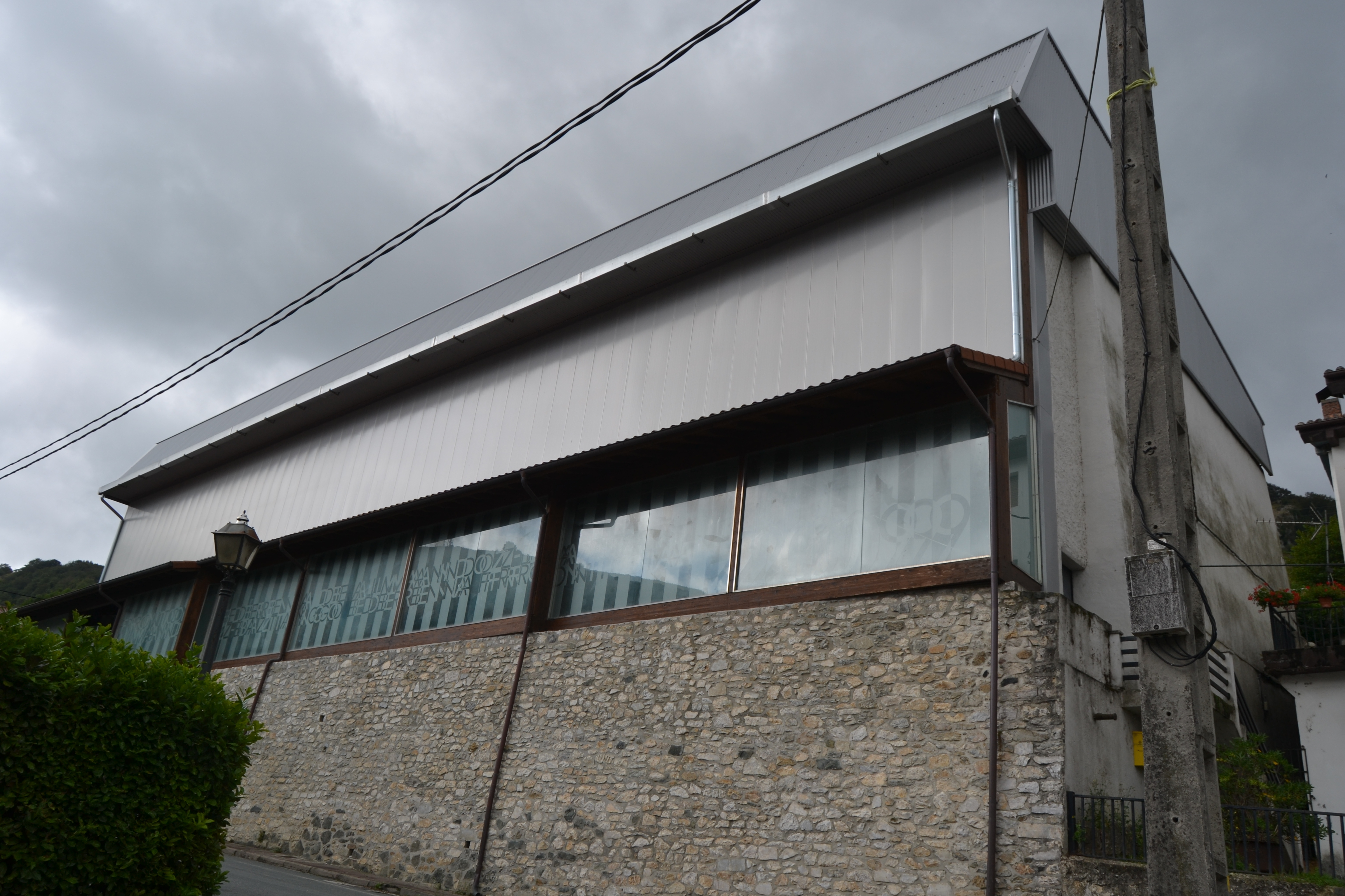 Ederrena fronton, Almadoz, Baztan. Navarre, Basque Country.